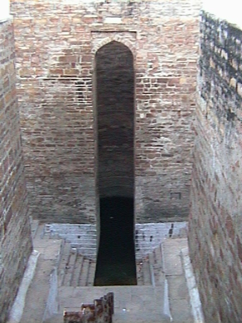 See Varanasi Development Cooperation Handbook/Stories/Responsible Development - Varanasi The Varanasi Heritage Dossier Kautilya Society Play media Vrinda Dar - How we got involved in heritage protection of Varanasi